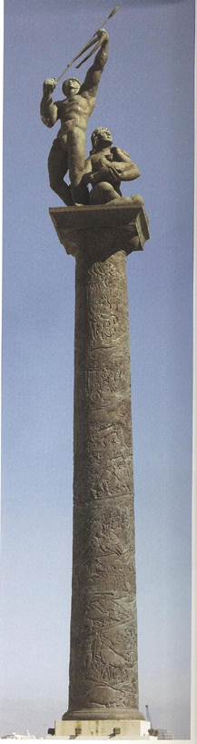 This 53-foot Historical Landmark at the Brickell Avenue Bridge, consist of the 17-foot sculpture "Tequesta family" sitting on top of the 36-foot "Pillar of History". The bronze column depicts the Miami River descending in a spiral and the lives of the Tequesta indians (Miami's first inhabitants), is narrated graphically along the river, and serves as a lesson on the history of Miami and its beginnings. Sculptor Carbonell after completing 3/5 of the carving of the column suffered a stroke, that left him paralyzed and unable to move his left hand, after two months, he finished the carving with his right hand.